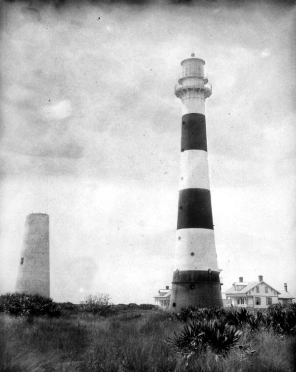 The old brick lighthouse tower (L) and the newer (R) iron lighthouse tower of Cape Canaveral, Florida, before the latter was moved 1.5 miles inland in 1893.